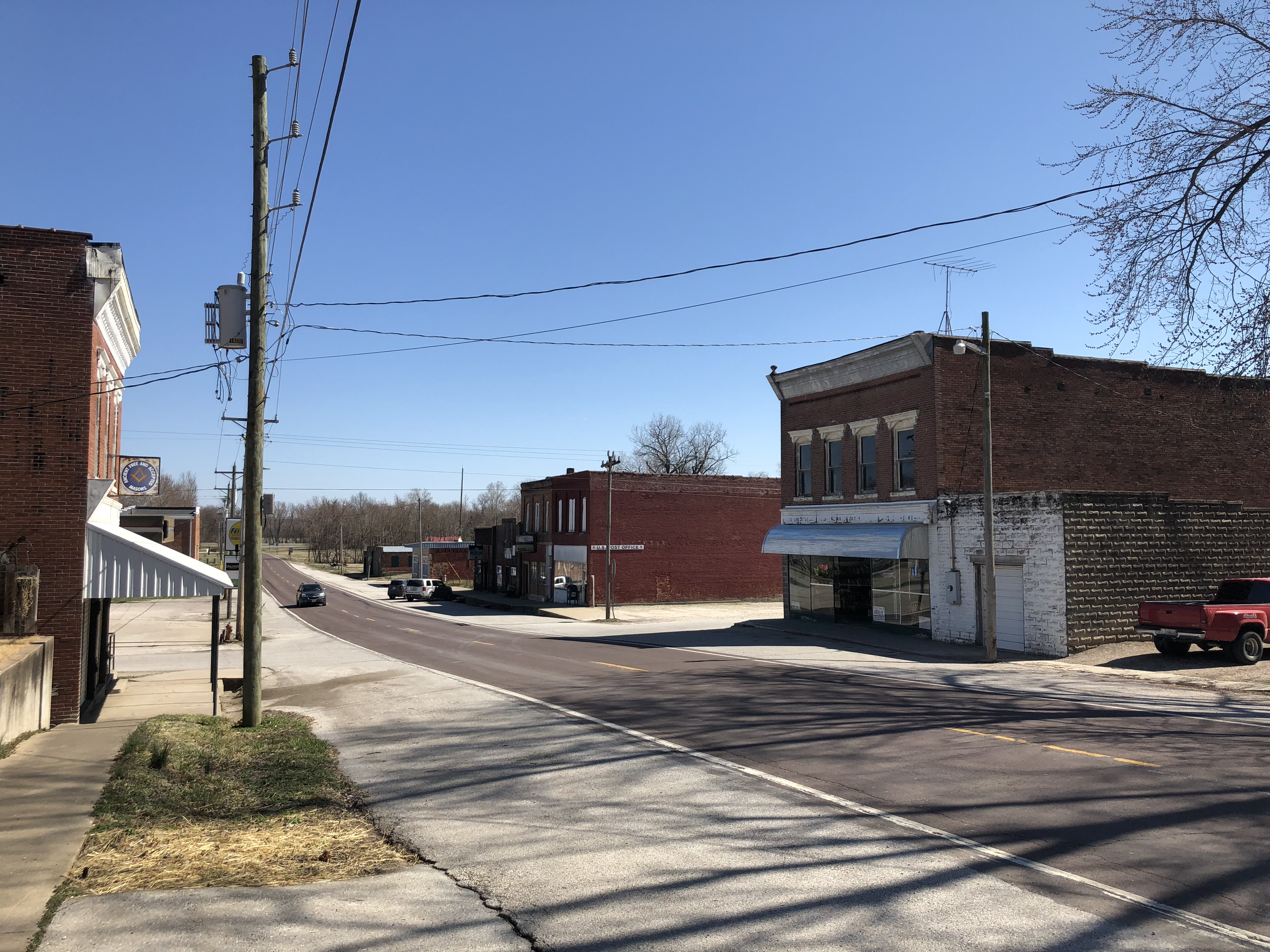 Downtown Mokane, Missouri on March 26 2019.